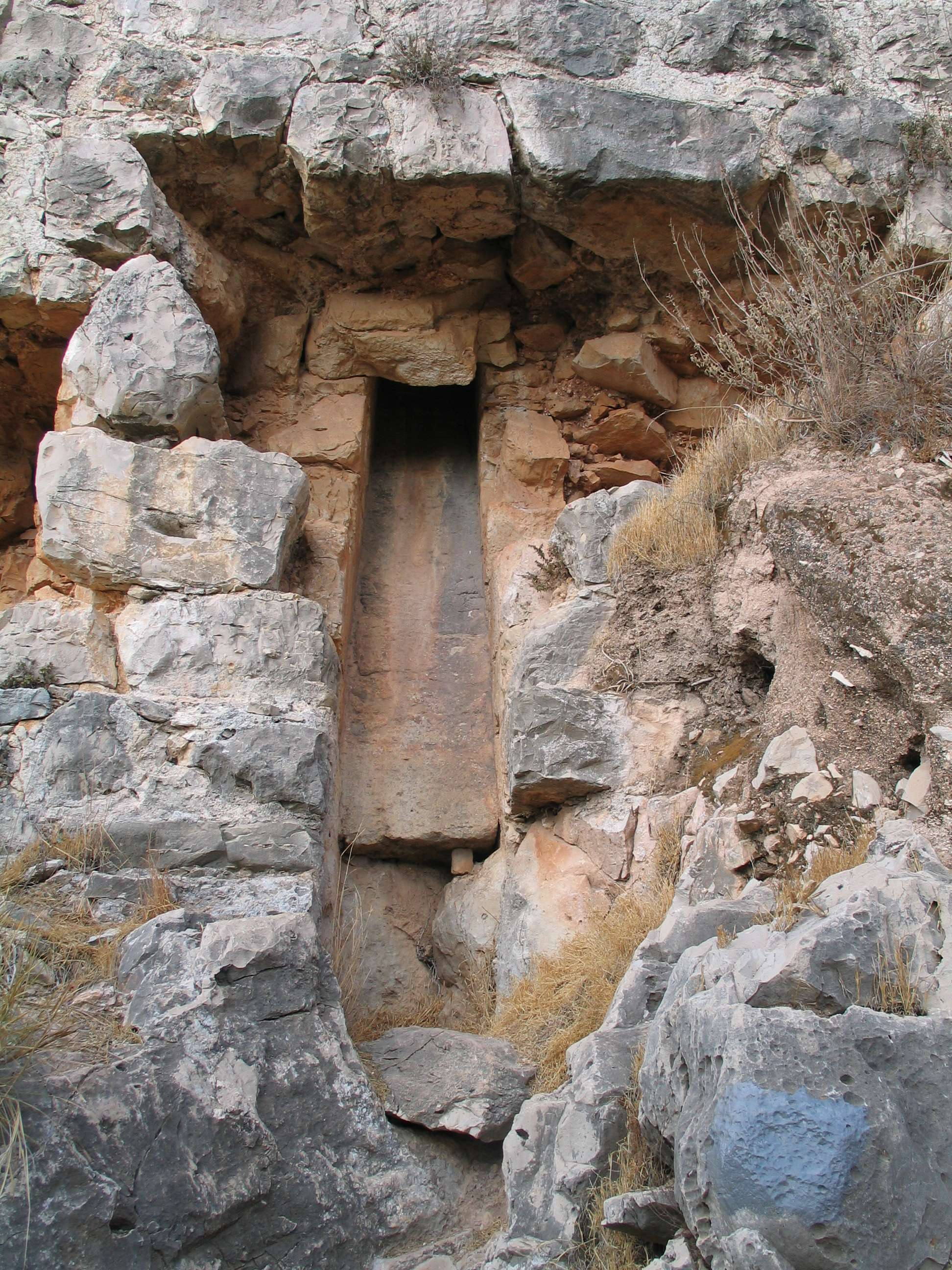 Montfort castle, Israel.